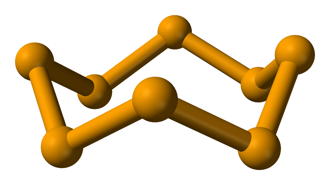 Ball-and-stick model of the cyclooctaselenium molecule, Se8, found in all three red monoclinic polymorphs of selenium, α-Se, β-Se and γ-Se.